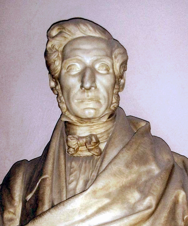 Ippolito Rosselini - Italian Egyptologist, born at Pisa, a great friend and an associate of Jean-François Champollion